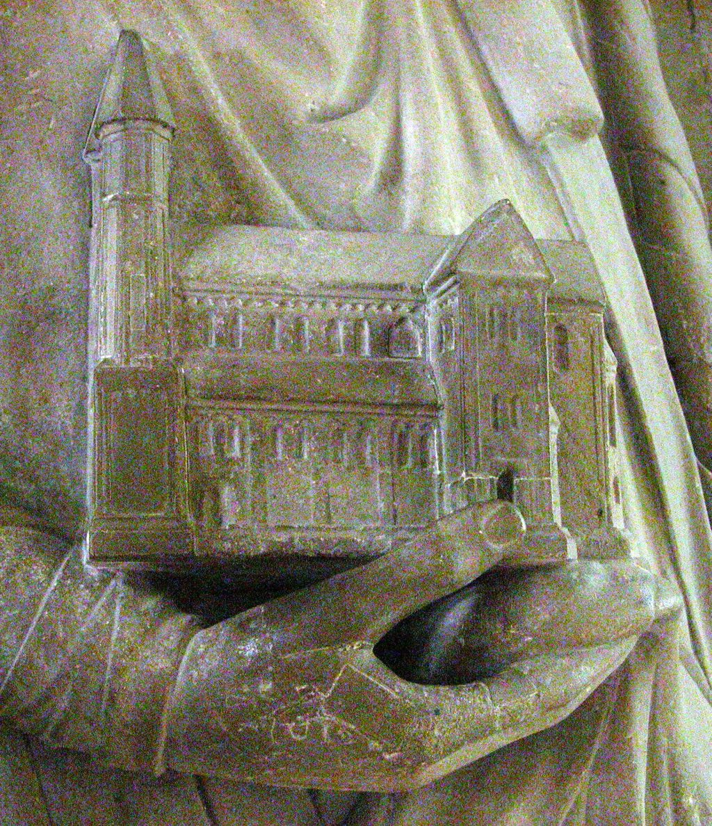 Tomb of Henry the Lion and Mathilde (detail)